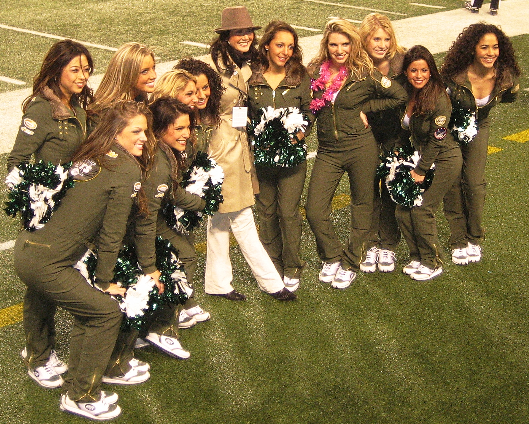 New York Jets cheerleaders posing during the game against the Dolphins on December 28, 2008.